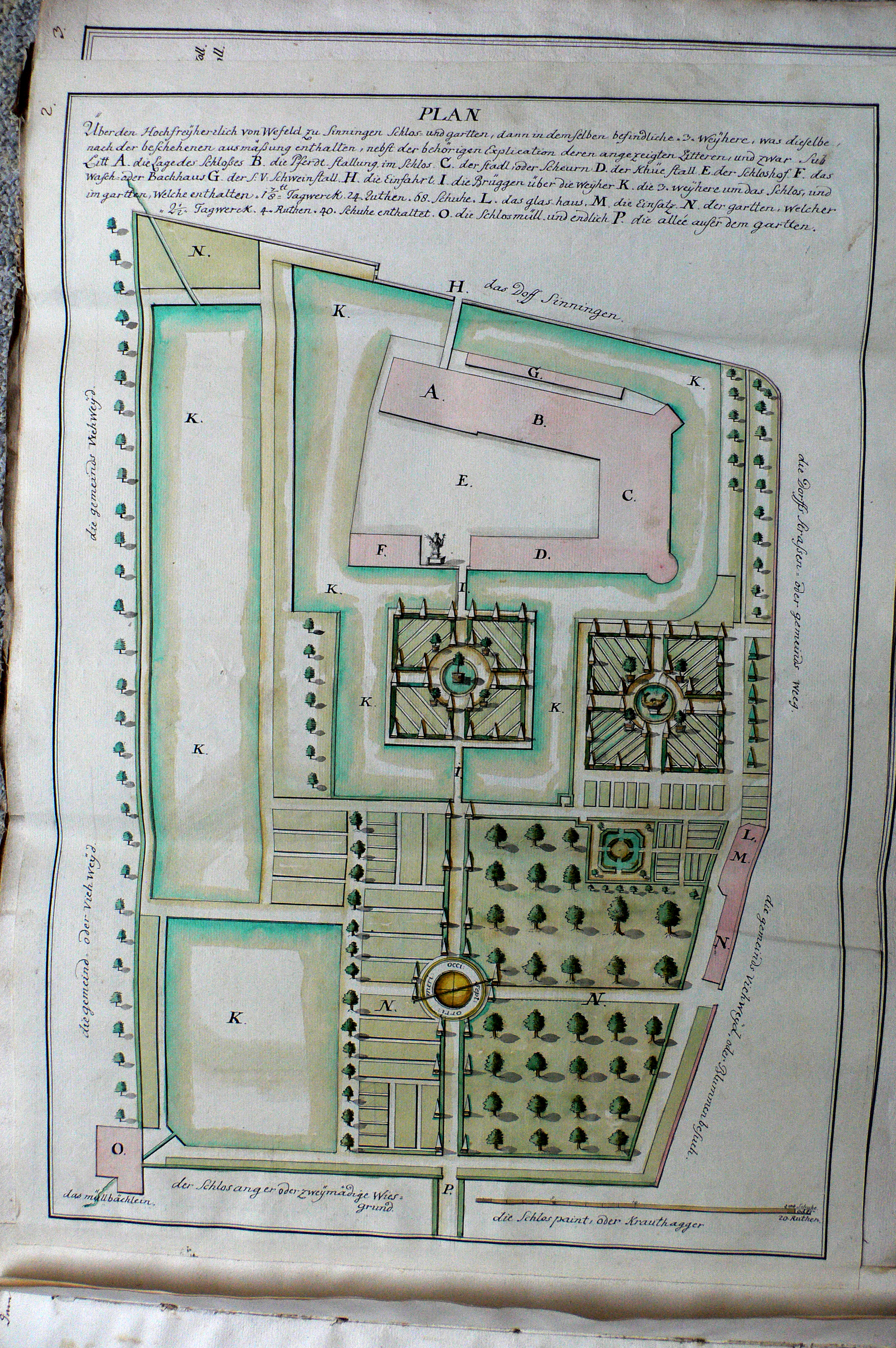 Floor plan of Schloss Sinning in Oberhausen, Upper Bavaria. A: Schloss, B: horse stable, C: barn, D: cowshed, E: courtyard, F: bakery, G: pigsty, H: gateway, I: bridges across the ponds, K: ponds, L: glasshouse, M: einsatz N: garden, O: mill, P: avenue